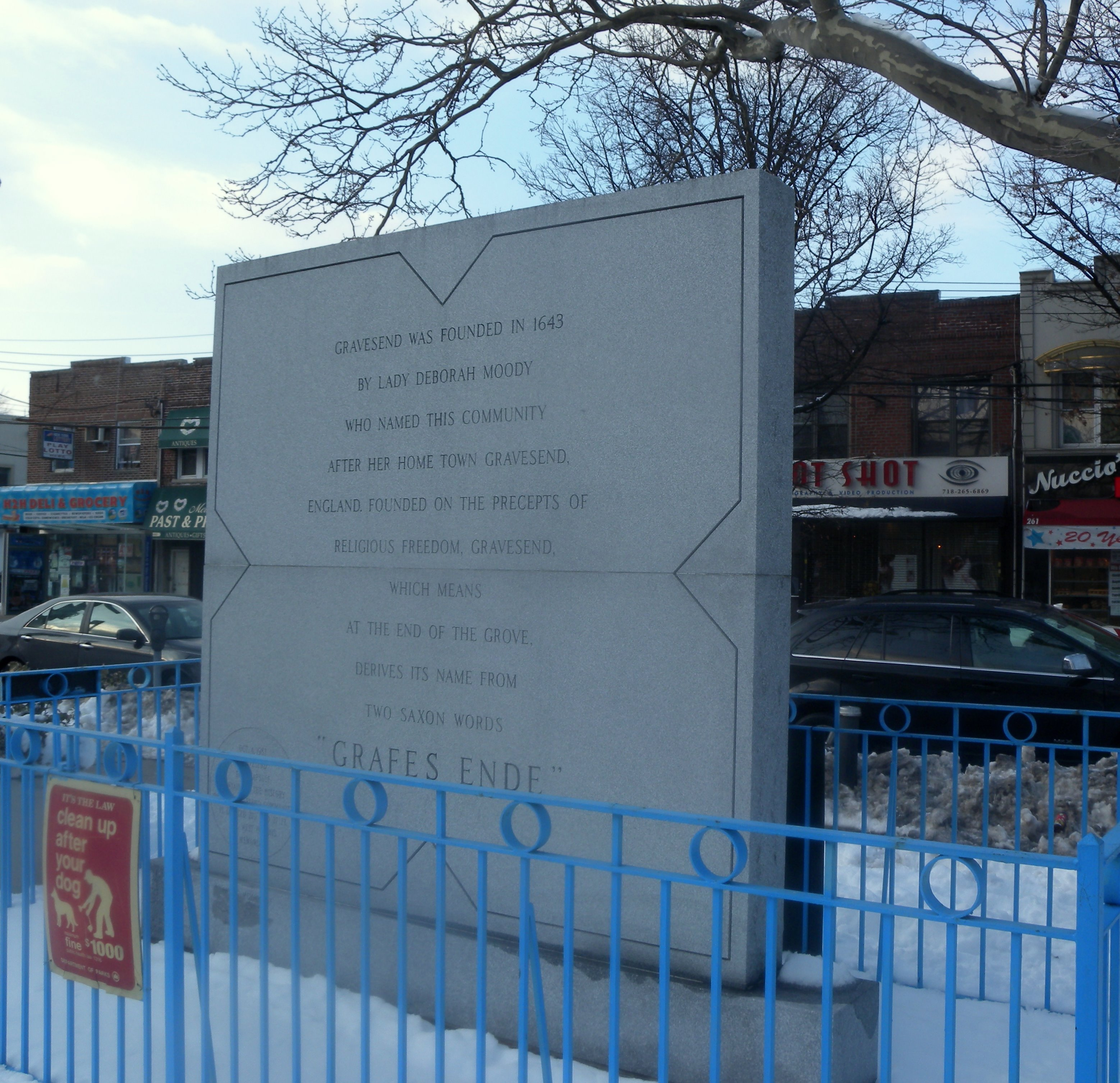 Looking northwest at Moody memorial on a mostly cloudy afternoon after snow. ZIP 11223.